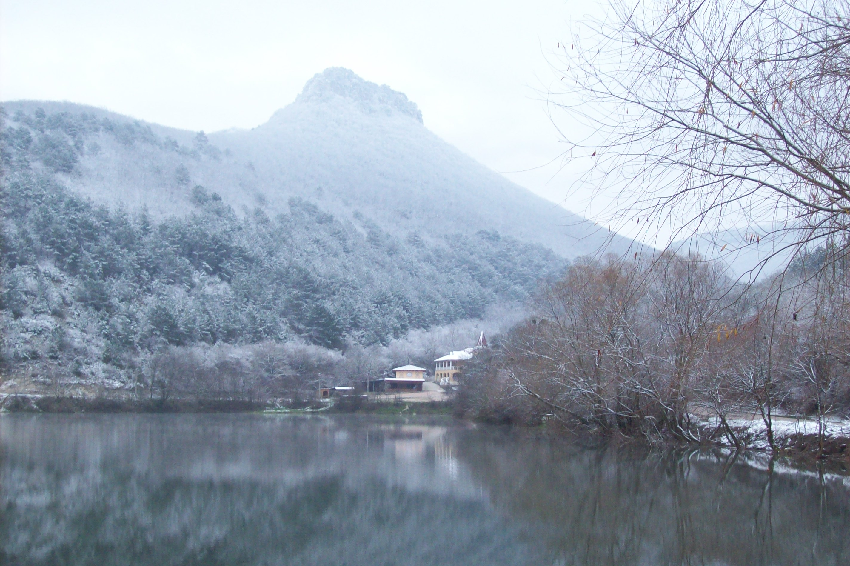 Mangup mountain and Woman`s lake. Near village Hodja-Sala, Bakhchisaray district, Crimea, Ukraine Гора Мангуп та Жіноче озеро. Біля села Ходжа-Сала Бахчисарайського району АР Крим, Україна. На фоті лиш один з чотирьох мисів Мангупської височини - Чамни-бурун (Сосновий мис).